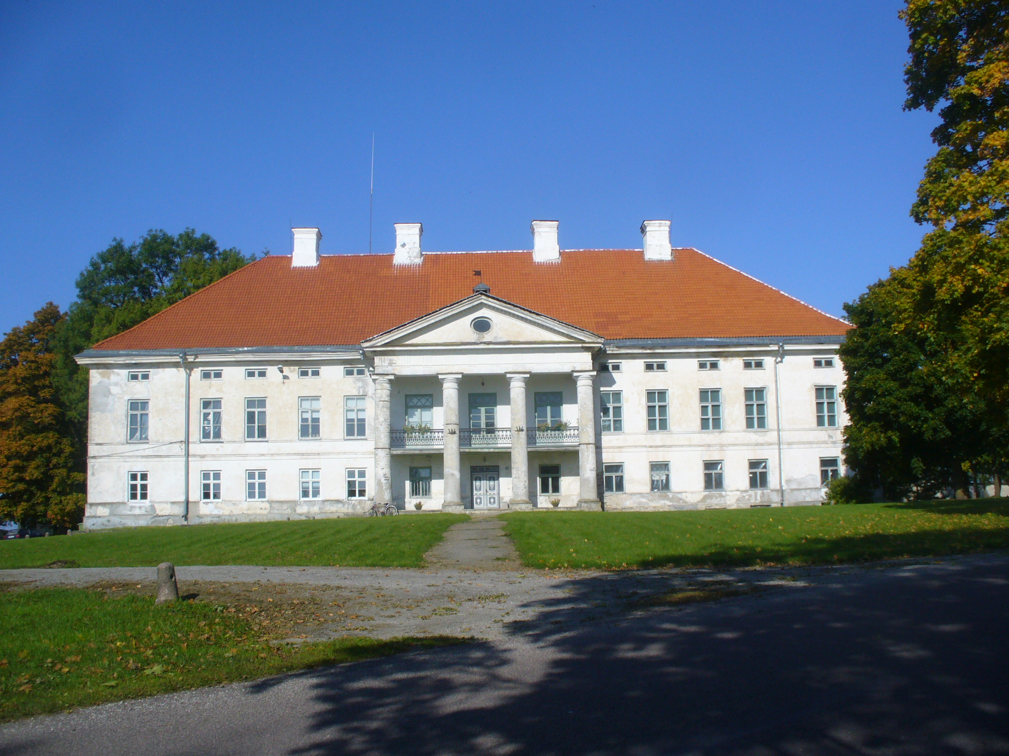 Lihula manor house. Lihula, Lääne county, Estonia.